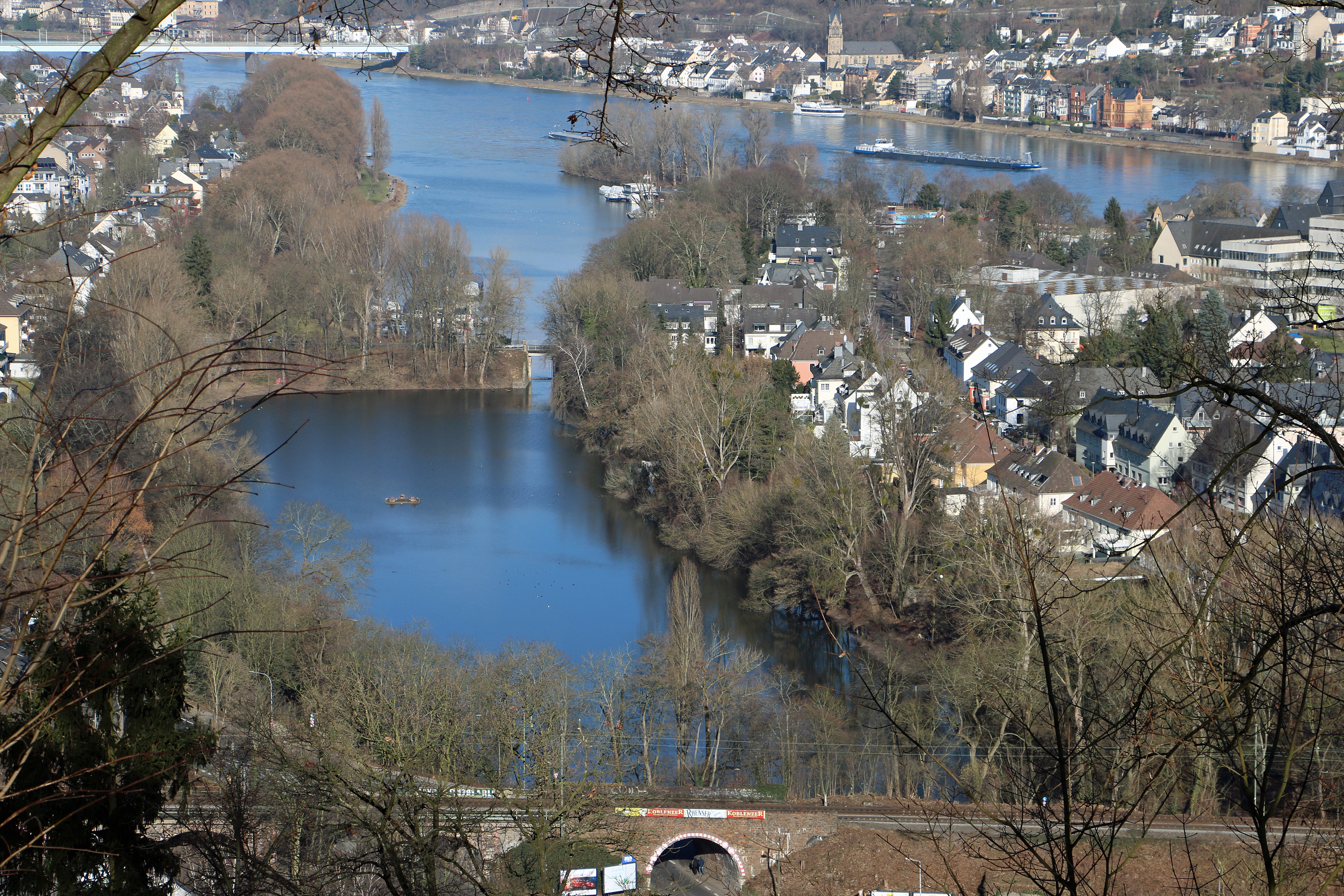 Rheinlache and Oberwerth in Koblenz